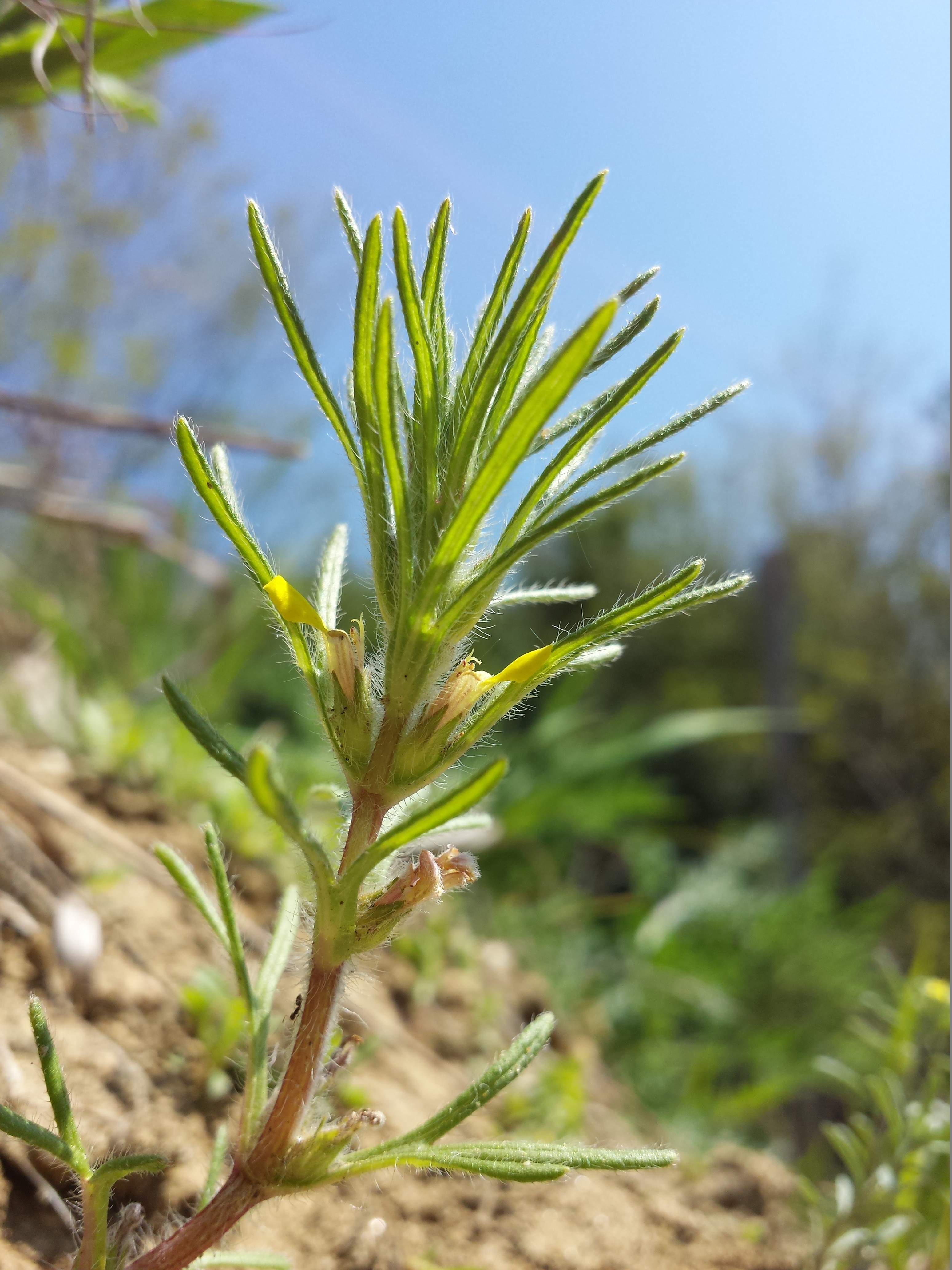 Habitus Taxonym: Ajuga chamaepitys ss Fischer et al. EfÖLS 2008 ISBN 978-3-85474-187-9 Location: Kranberg bei Ziersdorf, district Hollabrunn, Lower Austria - ca. 350 m a.s.l. Habitat: slope